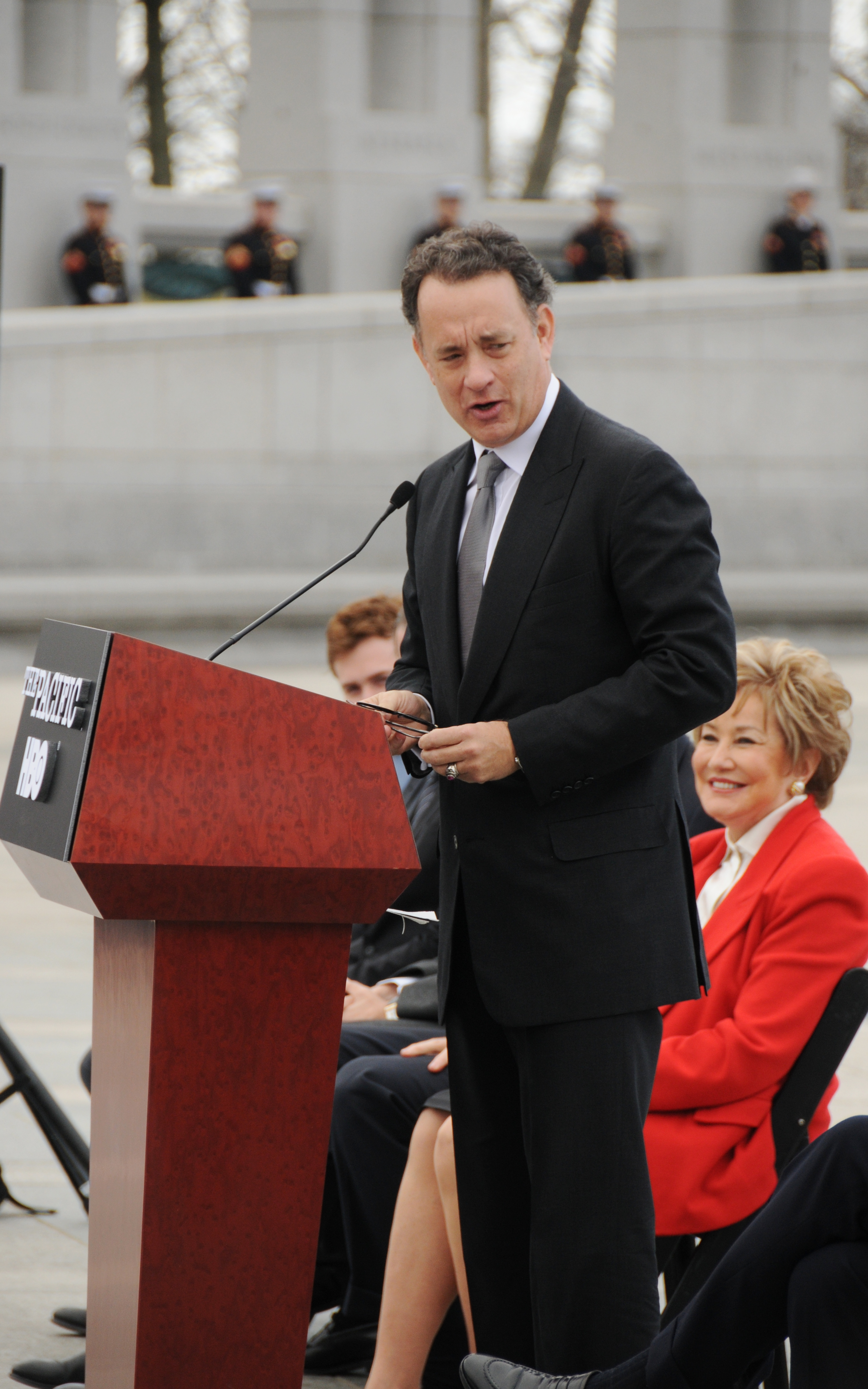 Actor and producer Tom Hanks, speaks to 250 veterans at the World War II Memorial March 11 who were flown in to be honored in timing with the premiere of "The Pacific."